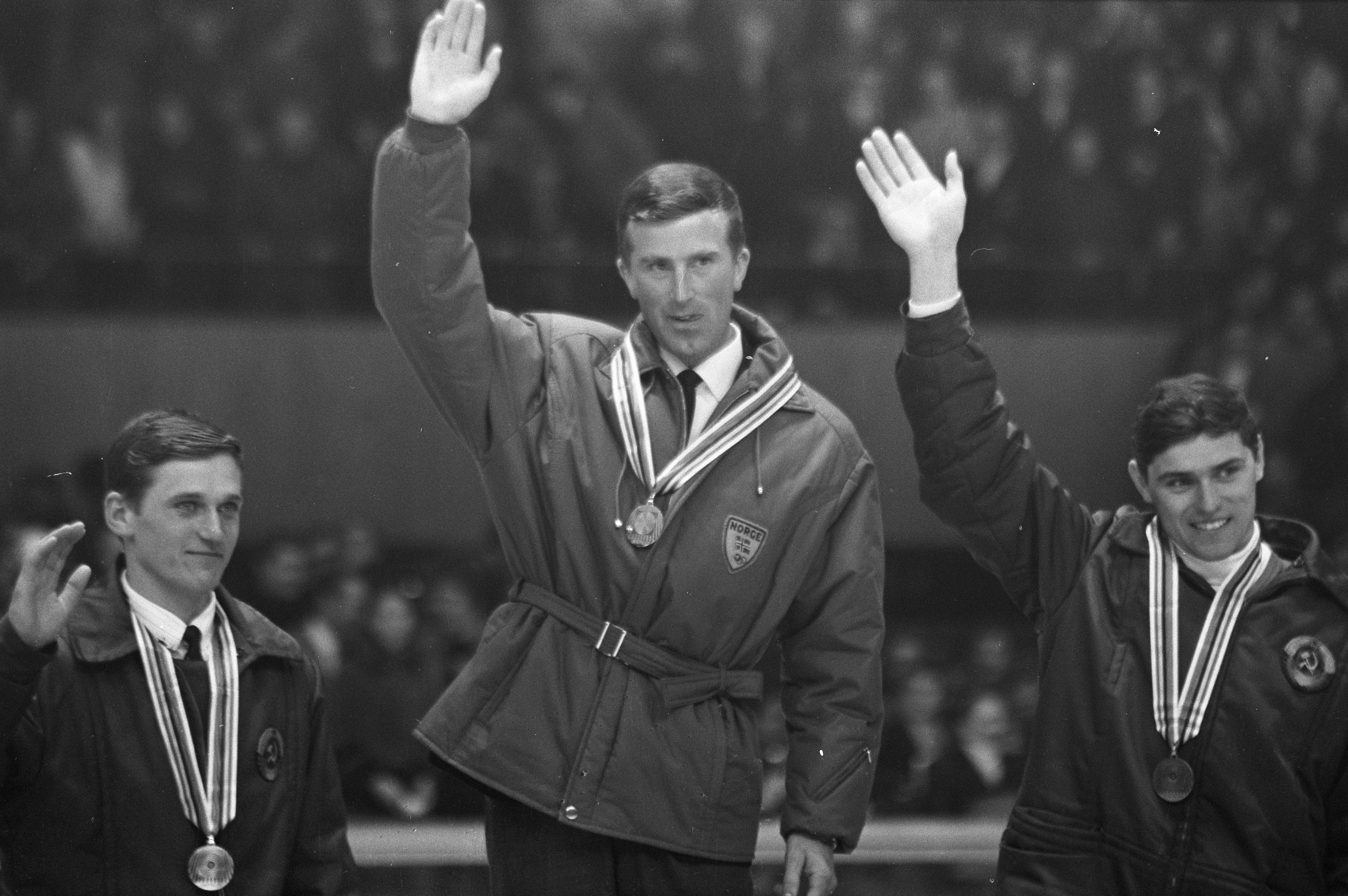 Biathlon at the 1968 Winter Olympics Men's 20 km